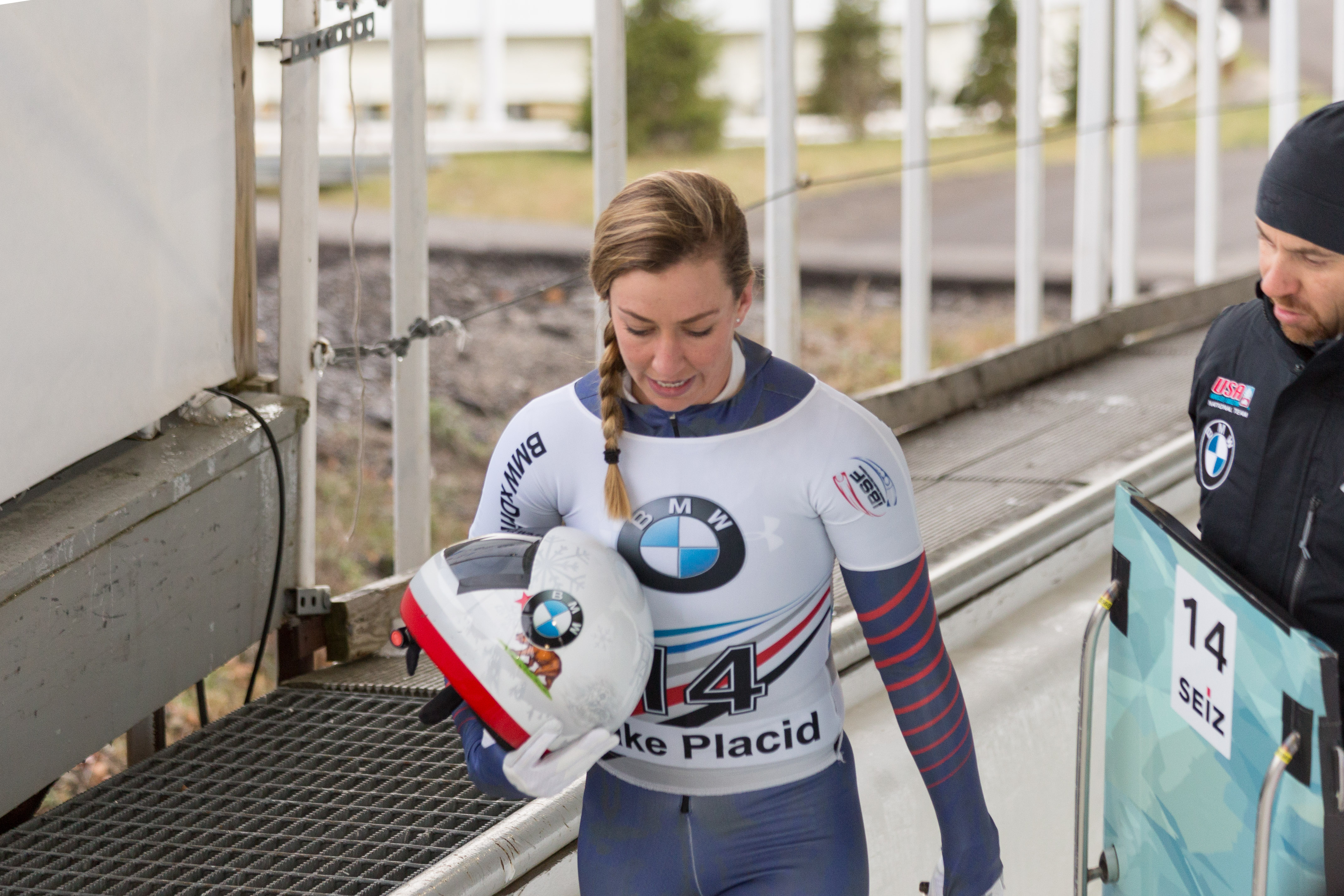 Kendall Wesenberg (USA) at the finish of her first run in the IBSF Skeleton World Cup race in Lake Placid She finished this heat in 16th place.